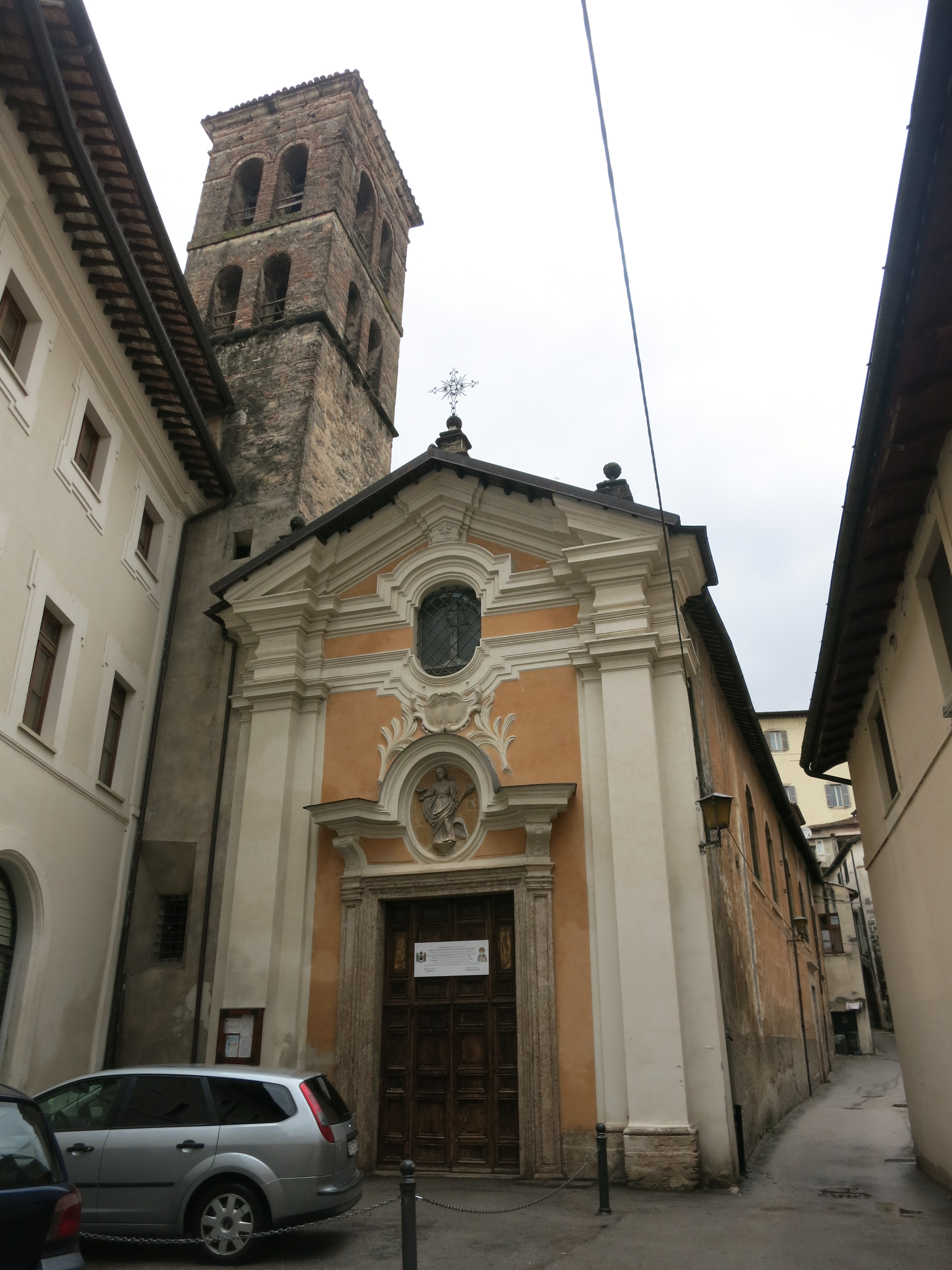 St. Lucy church (Rieti, Lazio, Italy)